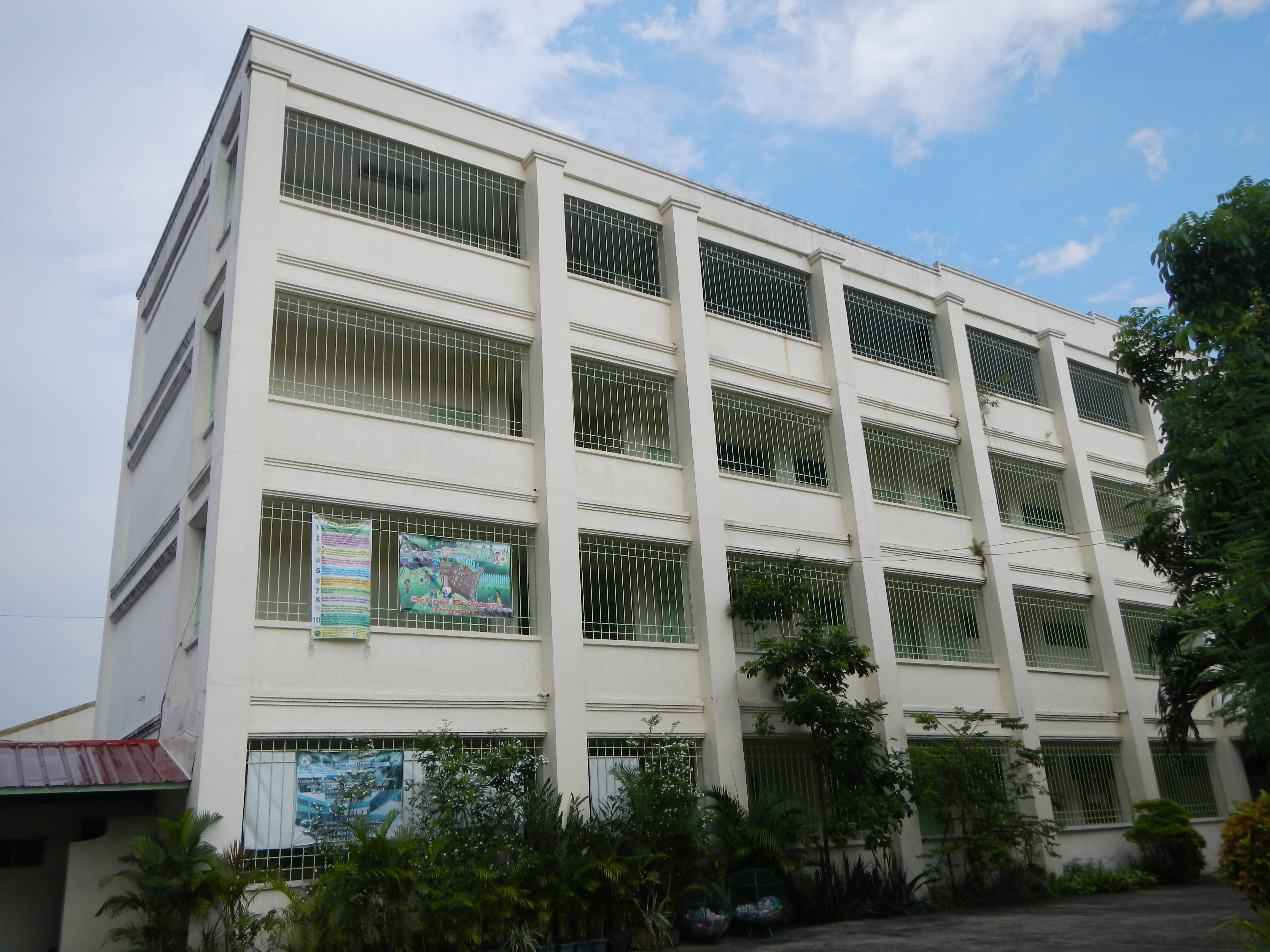 Parada National High School in Barangay Parada, Valenzuela City, Metro Manila, S. de Guzman St., Parada, Valenzuela City: Barangay Parada, Valenzuela City, Metro Manila; Division of City Schools–Valenzuela [1] (Barangay Parada, Valenzuela City Valenzuela, Lists of barangays in Philippine cities and municipalities, List of barangays in Valenzuela).